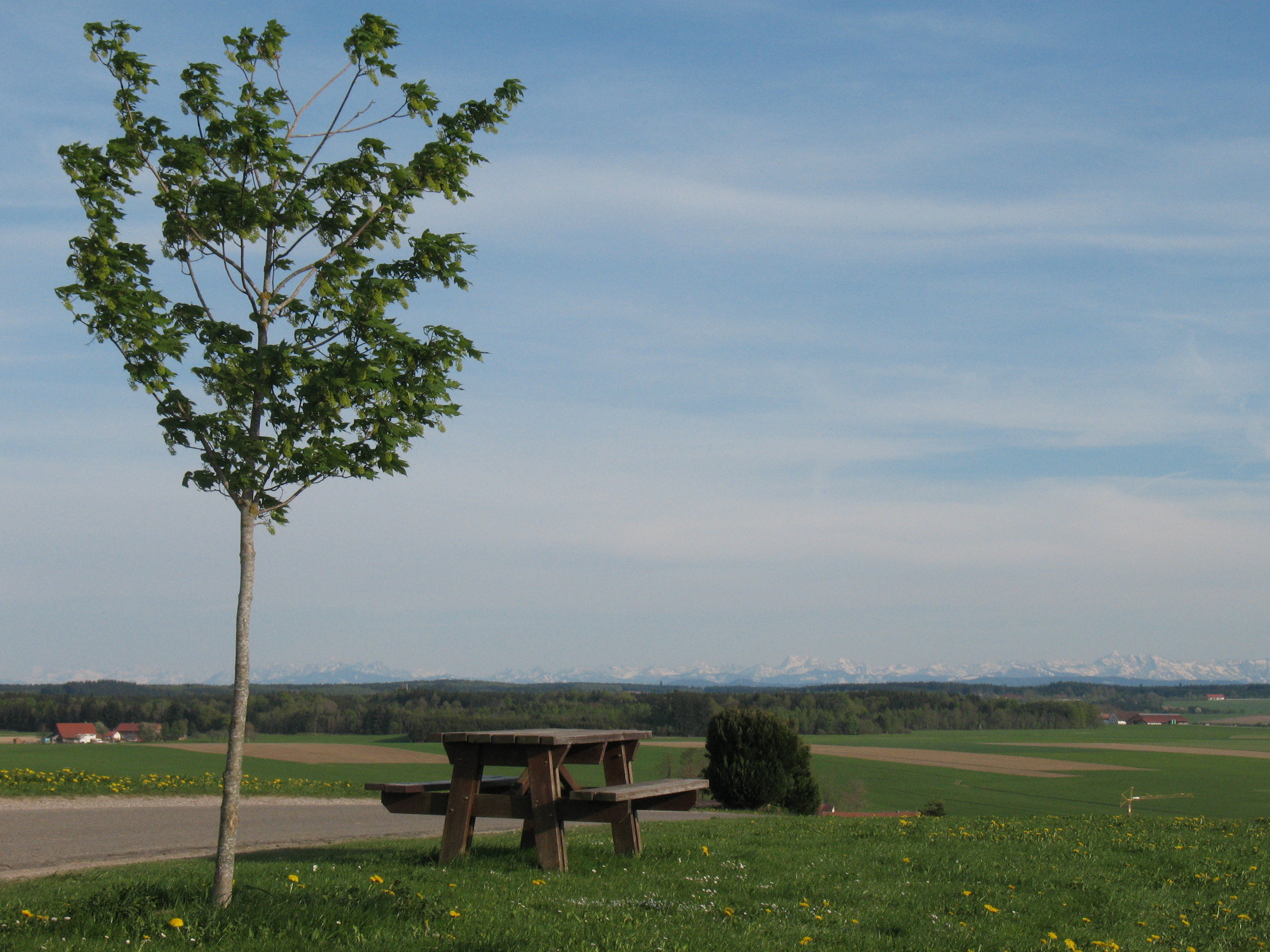 View from "Tristolzer Mountain" to the Alps.